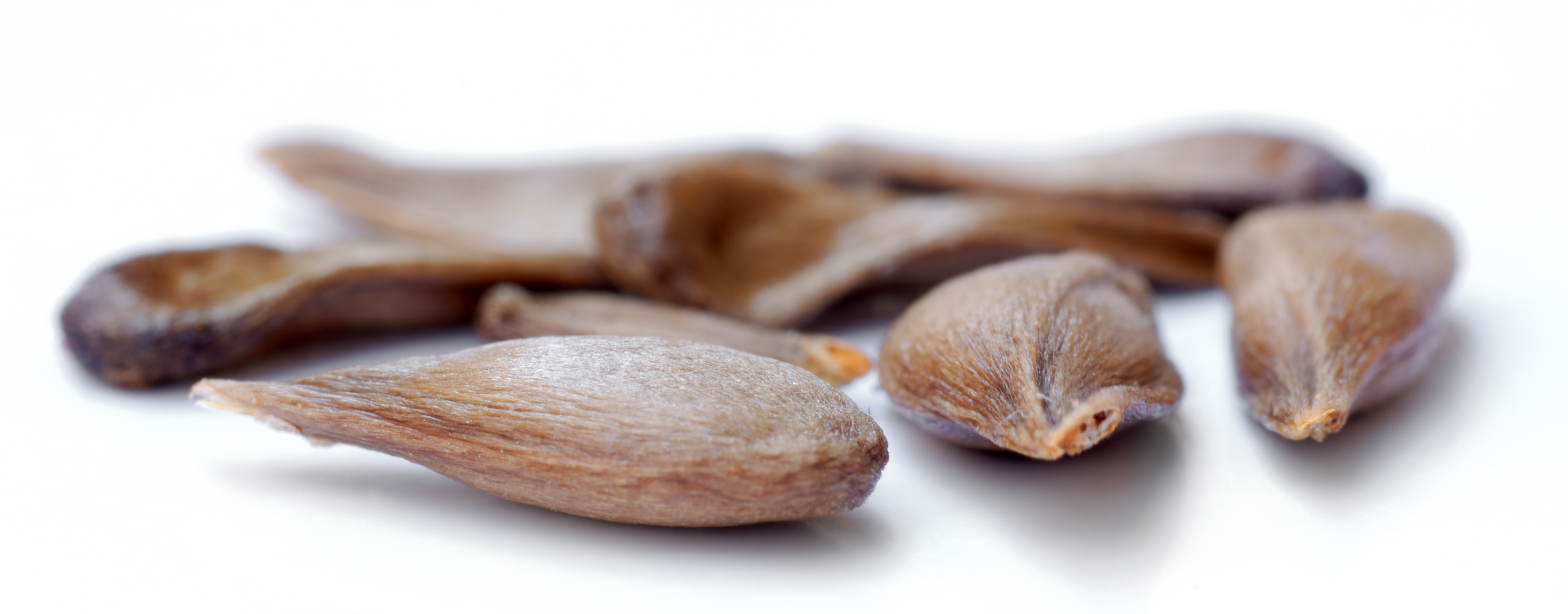 This image shows a few apple seeds of the variety "Roter Eiserapfel". The length of each seed is about 9 mm (0.35 inch). Thanks to Conny for providing the objects and for the assistance during the photo session.